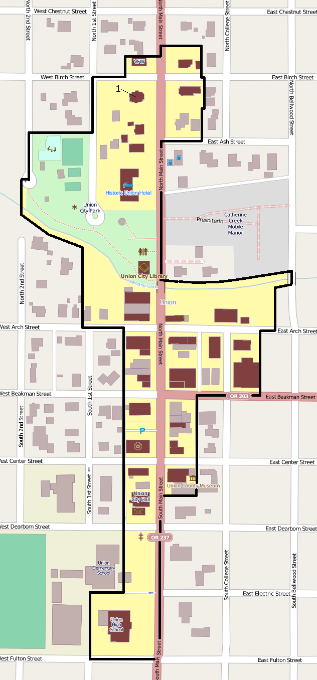 Map showing the boundaries of the Union Main Street Historic District in Union, Oregon, United States. The historic district is listed on the US National Register of Historic Places. Boundary data is derived from the historic district's National Register nomination form. Black boundary/yellow area: Union Main Street Historic District boundaries. Numbers: Represent the locations of contributing resources in the historic district that are also listed individually on the National Register: Abel E. Eaton House Brown shading: Buildings listed as contributing resources in the historic district. Brown asterisk: Marks the Union City Park, a contributing resource that is not a building. Brown double-dagger: Marks the former location of a building that was identified as a contributing feature in the historic district at the time of listing on the National Register, but which was demolished after June 28, 2005 (date of Google Earth satellite imagery).